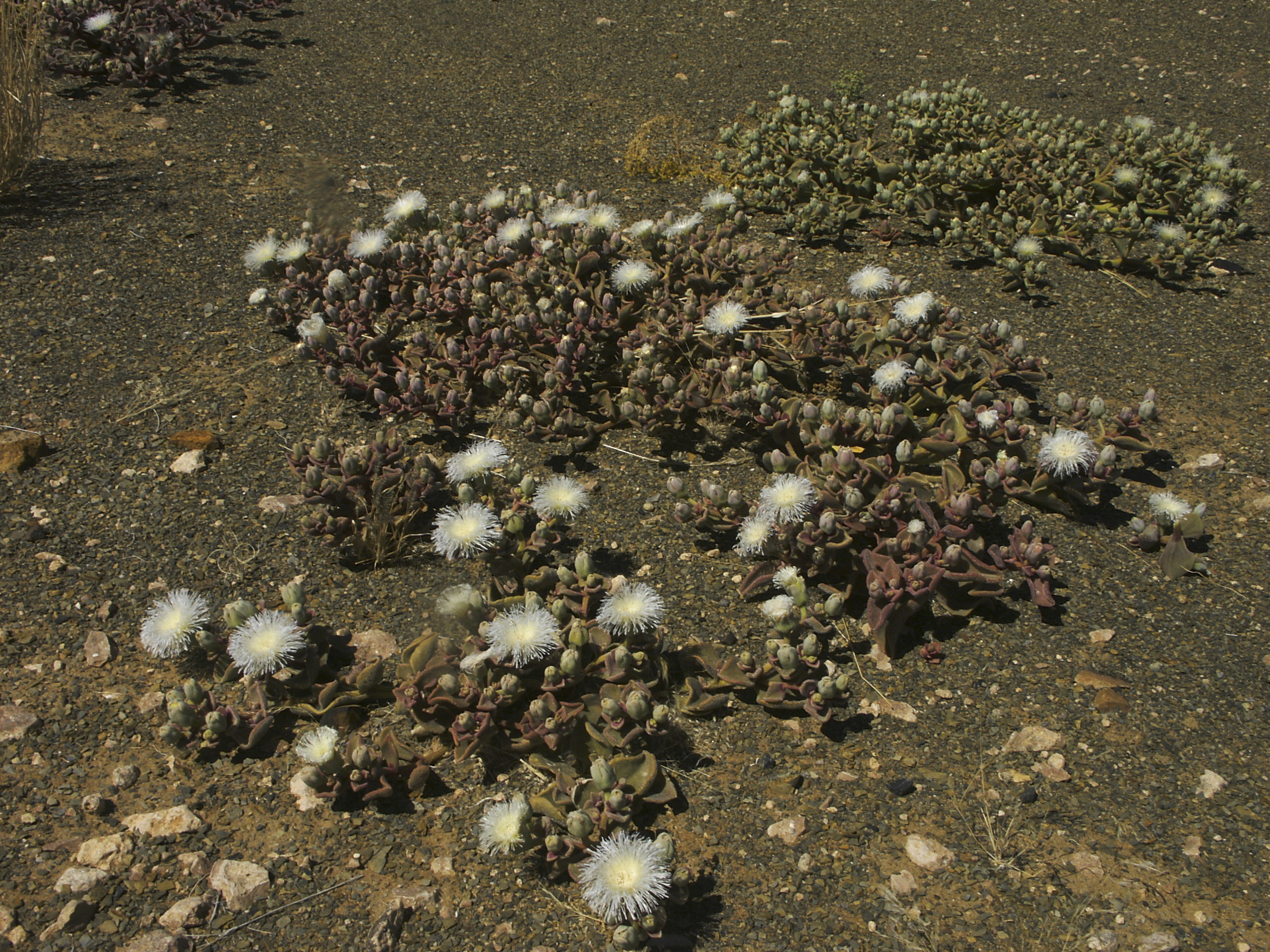 Iceplant Mesembryanthemum crystallinum L. , flowering Desert, Namaqualand, Goegap Nature Reserve, Northern Cape, South Africa